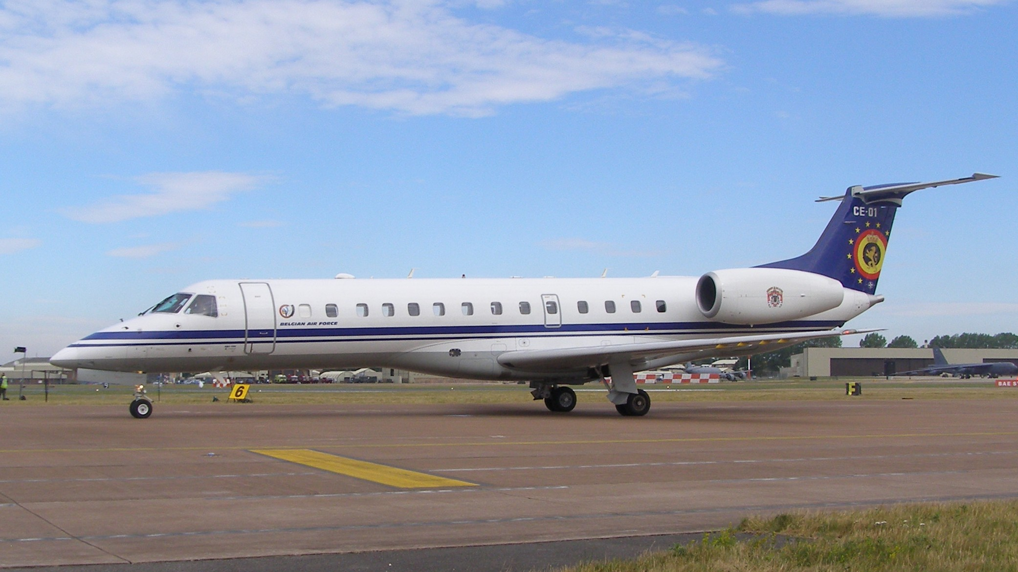 CE-01 is an Embraer ERJ-135LR of the Belgian Air Force at the 2010 Royal International Air Tattoo, RAF Fairford, England